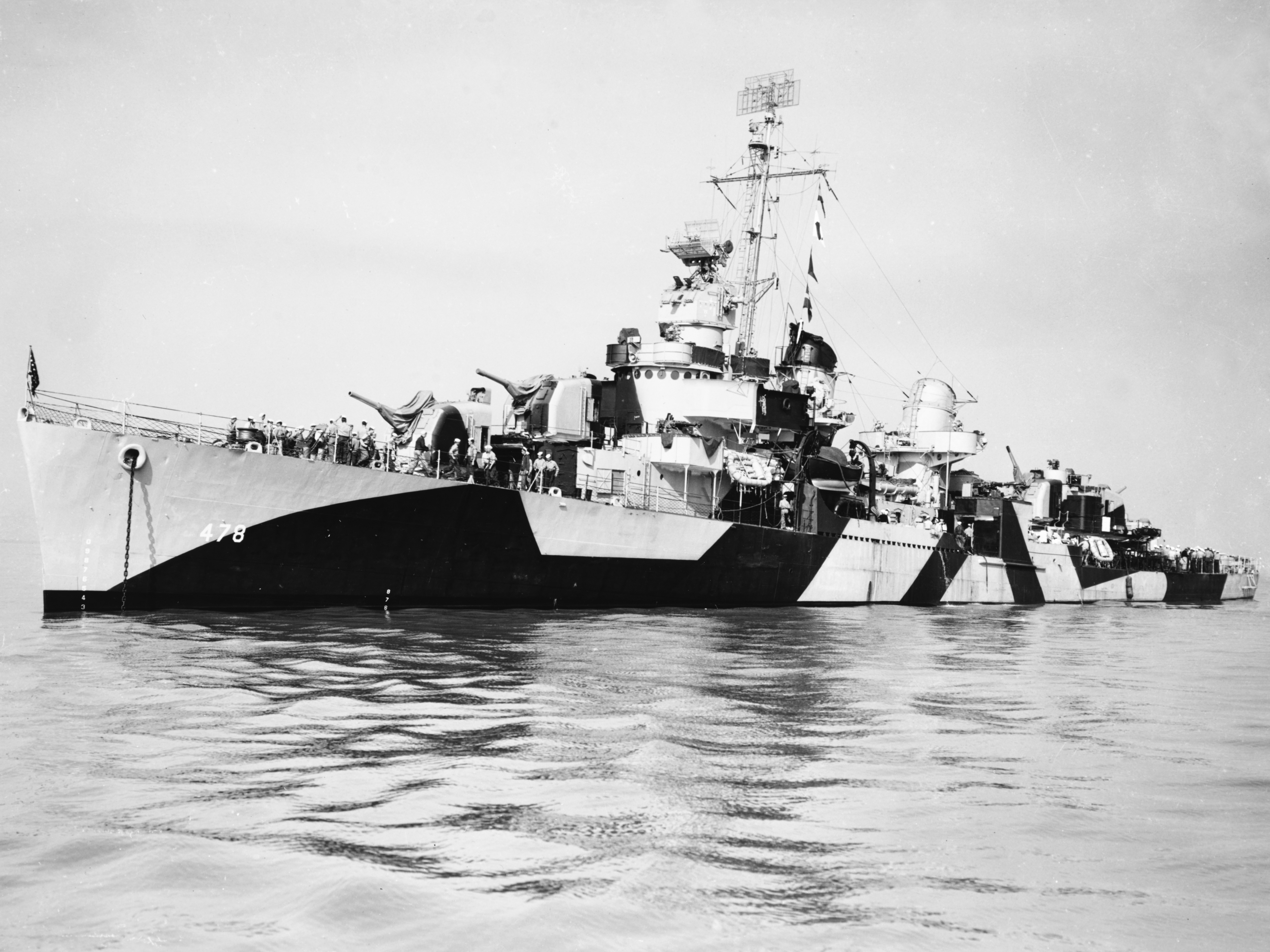 The U.S. Navy destroyer USS Stanly (DD-478) off the Hunters Ponit Naval Shipyard, San Francisco, California (USA), on 6 October 1944. She is painted in Camouflage Measure 31, Design 13D.